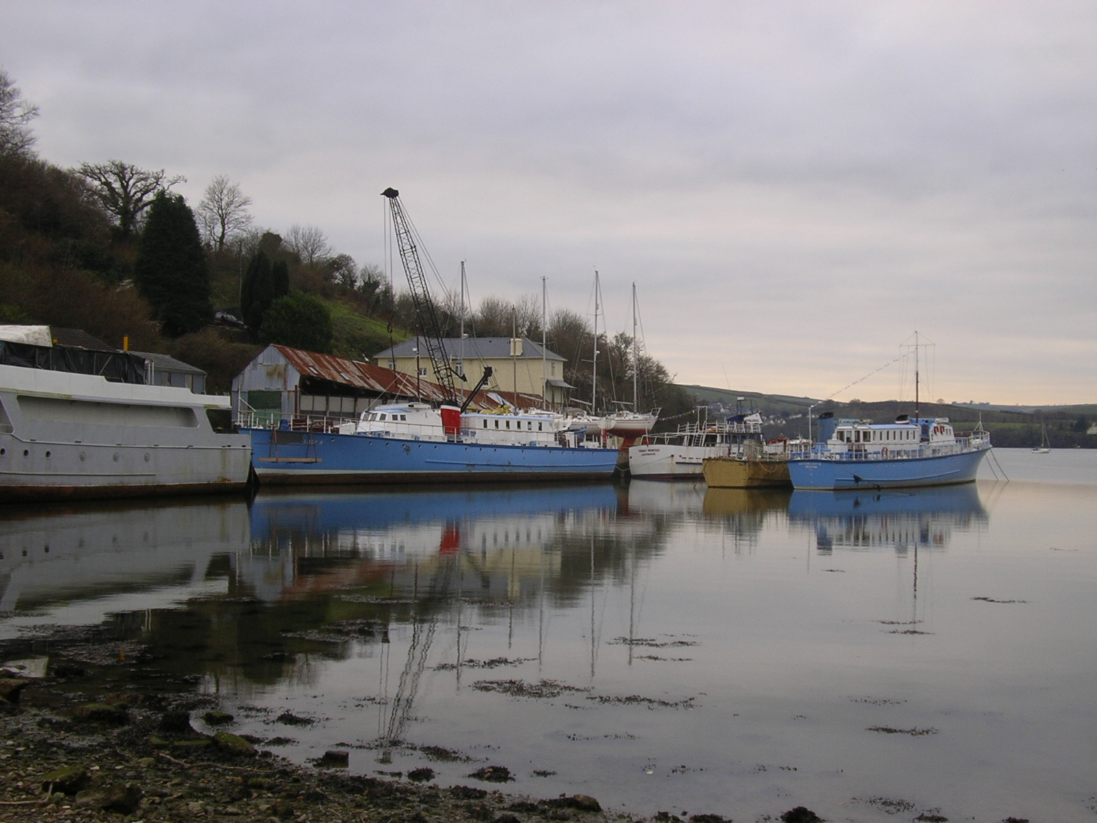 The fleet of Western Lady Ferry service laid up at Dolphin boatyard in Galmpton, Torbay in the winter of 2005. From right to left, they are Western Lady III, Western Lady (yellow hull), Torbay Princess and Western Lady IV